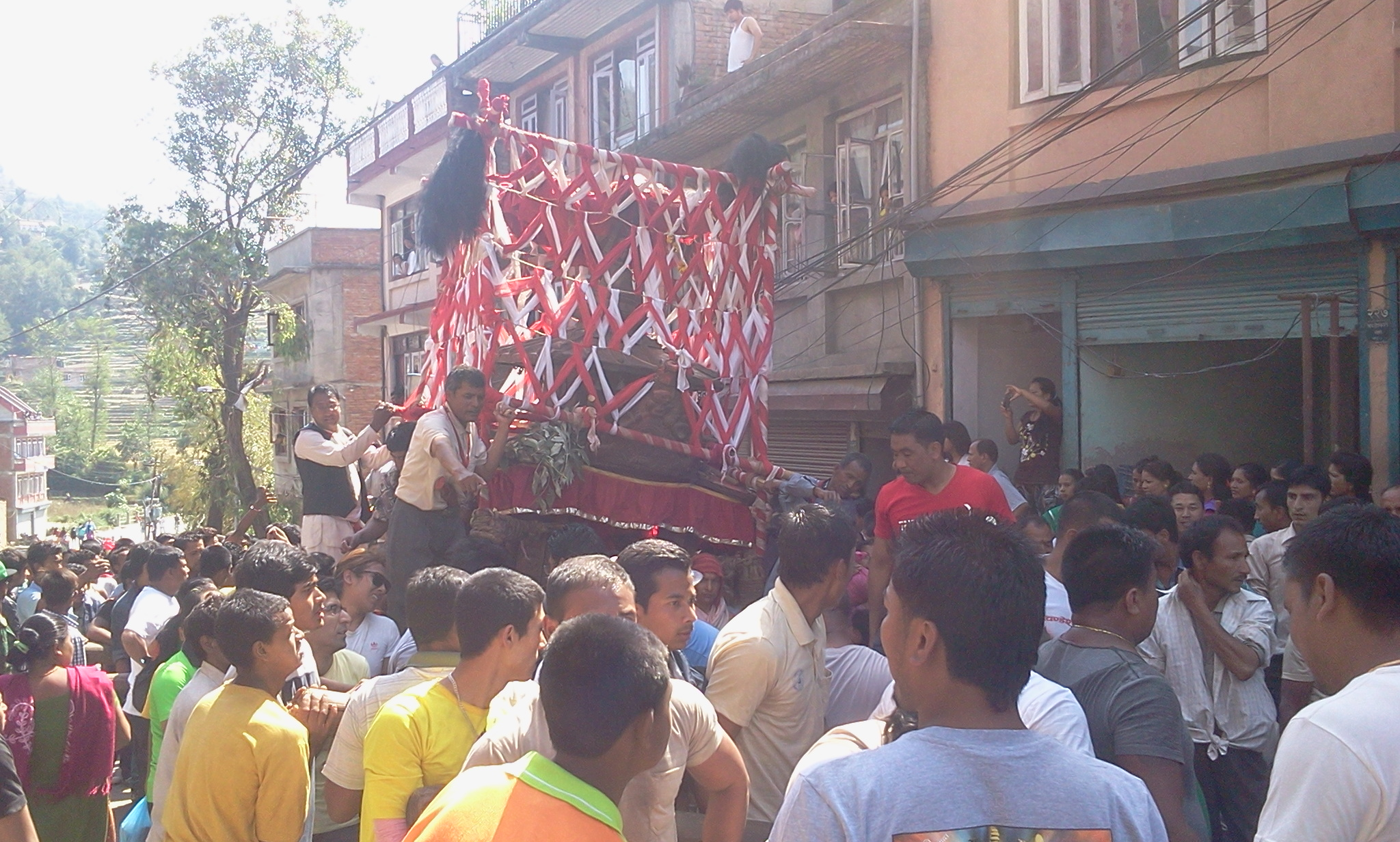 This image is of Chandeshwori Jatra held in Banepa.